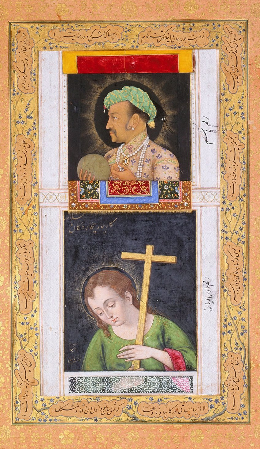 Hashim and Abu'l Hasan. Jahangir and Jesus Jahangir and Jesus. Jahangir by Hashim c. 1615-1620. Jesus by Abu’l-Hasan, c. 1610-1620. Chester Beatty Library, Dublin